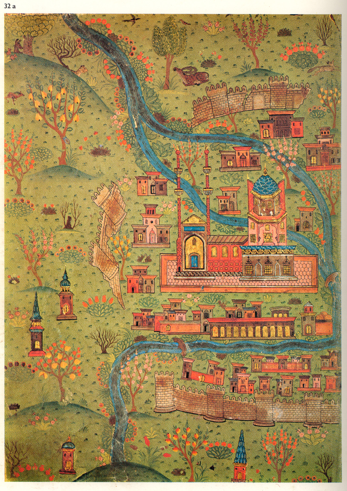 16th century map of Soltaniyeh, Zanjan, Iran